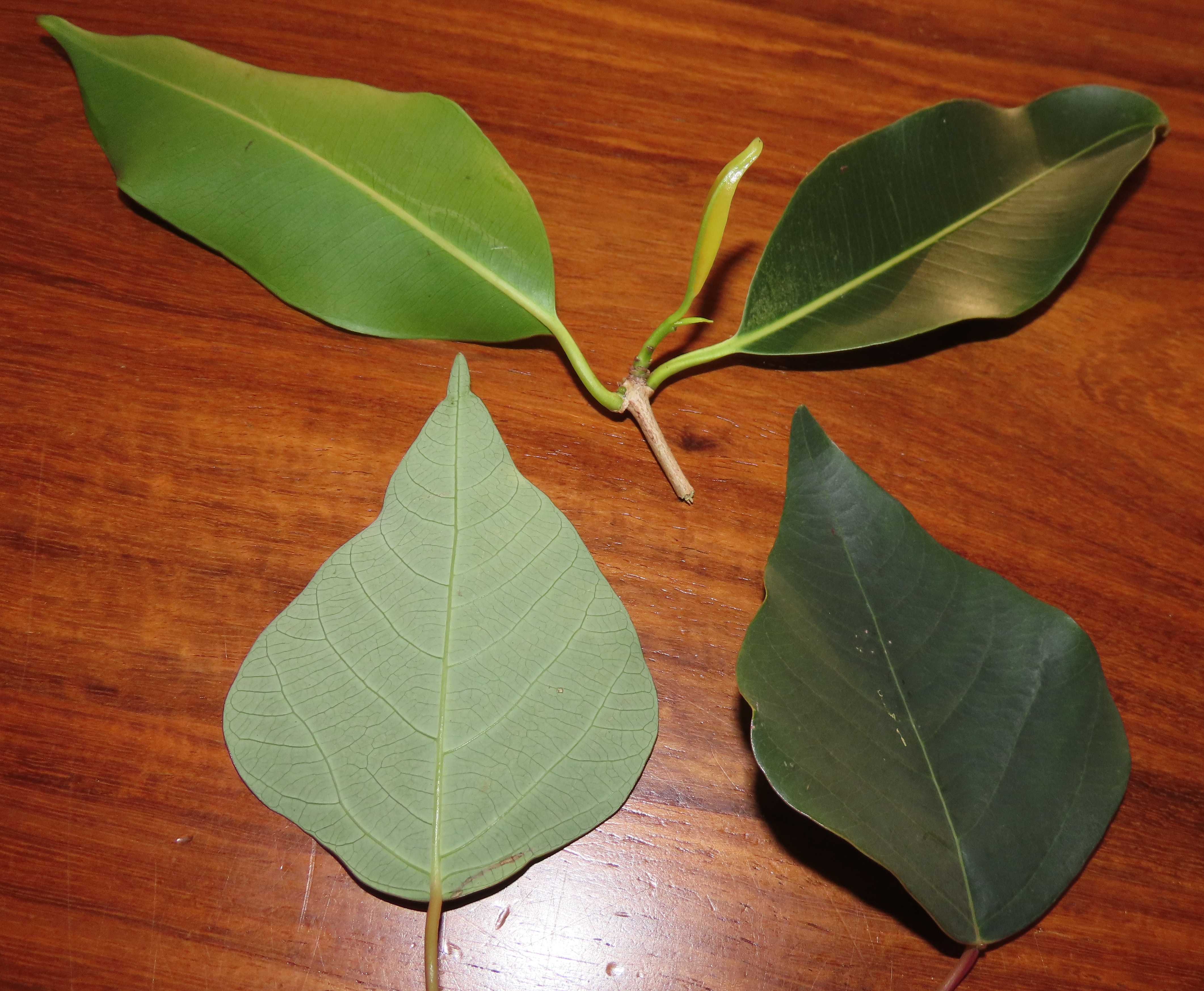 Dorsiventral (bilateral) leaves of Syzygium gerrardii and Triadica sebifera are examples of species with leave that differ visibly (and in their internal tissues) front and back.